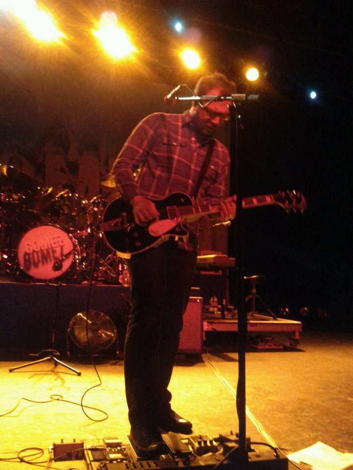 Picture of Ben Ottewell. Ben_Ottewell_at_the_TLA_(Theater_of_Living_Arts)_in_Philadelphia